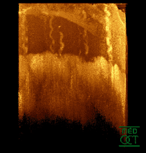 Still image of Optical Coherence Tomography (OCT) tomogram of a fingertip, depicting stratum corneum (~500µm thick) with stratum disjunctum on top and stratum lucidum (connection to stratum spinosum) in the middle. At the bottom are superficial parts of the dermis. Sweatducts are clearly visible. This still image loads 90x times faster than the rotating-image.